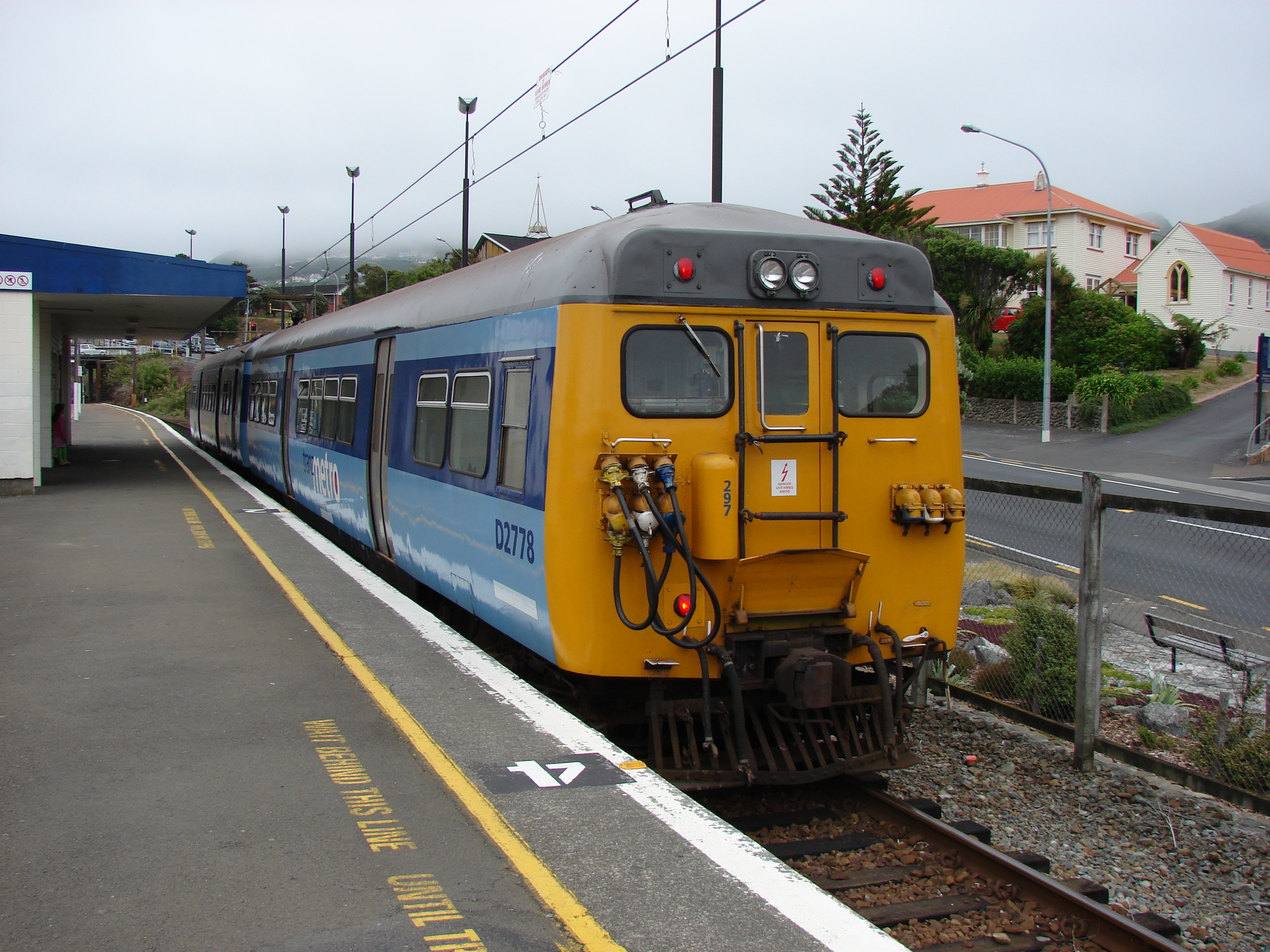 A south-bound NZR DM class EMU departing Johnsonville railway station on the Johnsonville Branch.